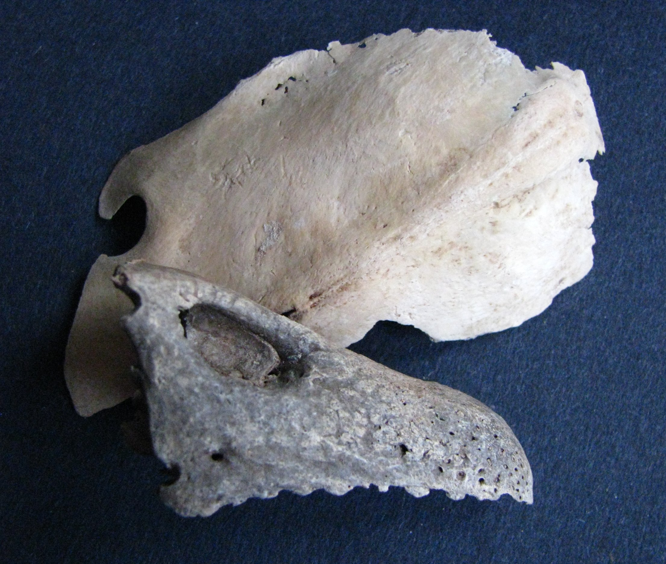 Common Oʻahu moa nalo Endemic to the Hawaiian Islands; Extinct Moa nalo were flightless goose-like ducks. At least four species were known to exist: Tortoise-jaw moa nalo (Chelychelynechen quassus), Clumsy moa nalo (Ptaiochen pau), Maui Nui moa nalo (Thambetochen chauliodus), and Common Oʻahu moa nalo (T. xanion)--all now extinct. These specimens came from the Barber's Point sinkholes, Oʻahu, Hawaiian Islands. Identified by the late Alan C. Ziegler in 1992.